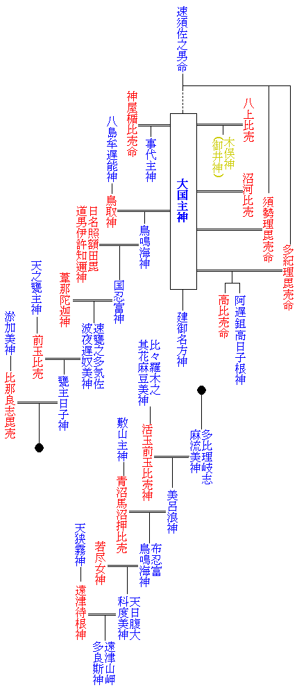 Family tree of Ohokuninushi, a shinto kami 大国主の系図（古事記による）